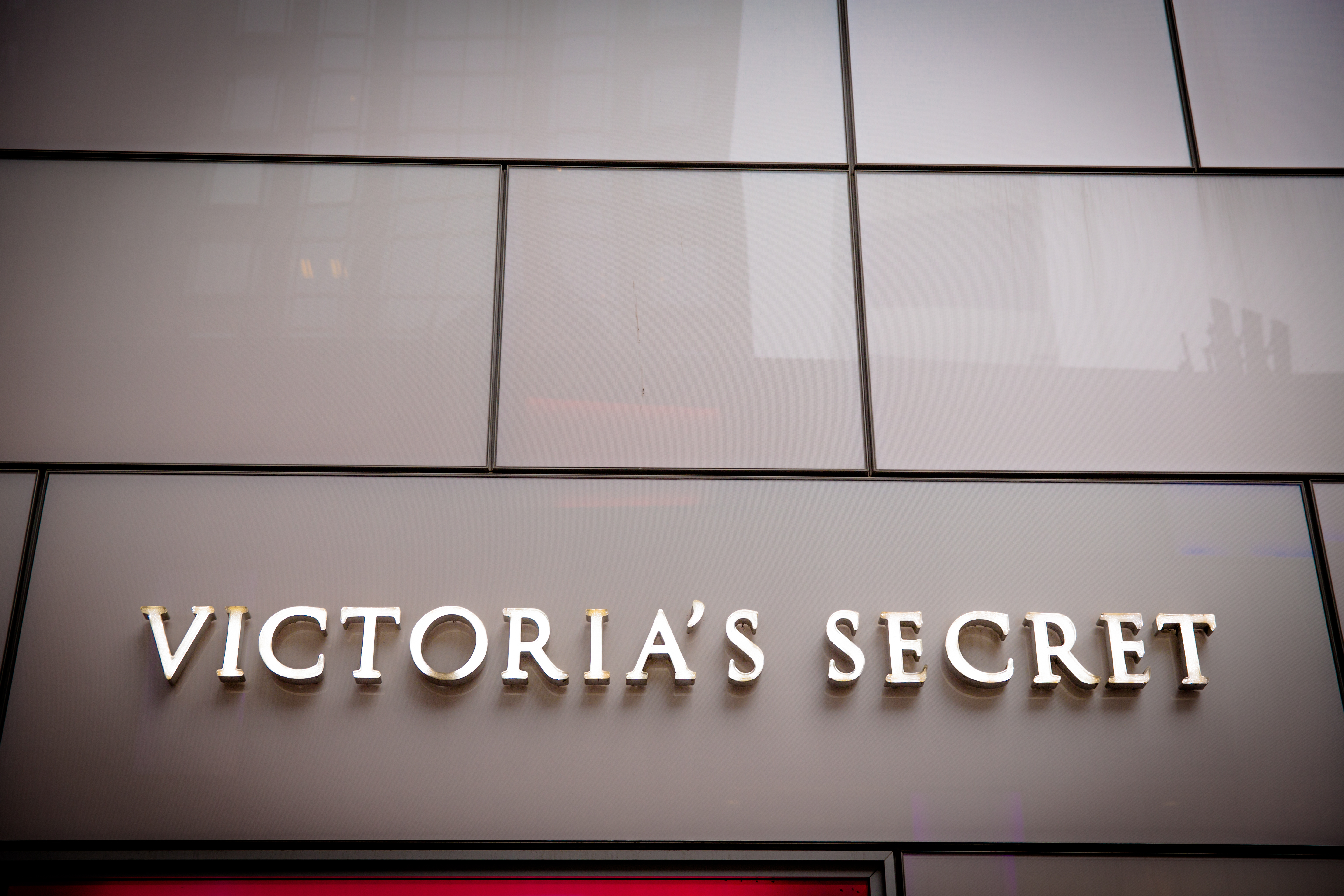 Victoria's Secret Store, 722 Lexington Ave, New York, NY 10022, USA - Dec 2012